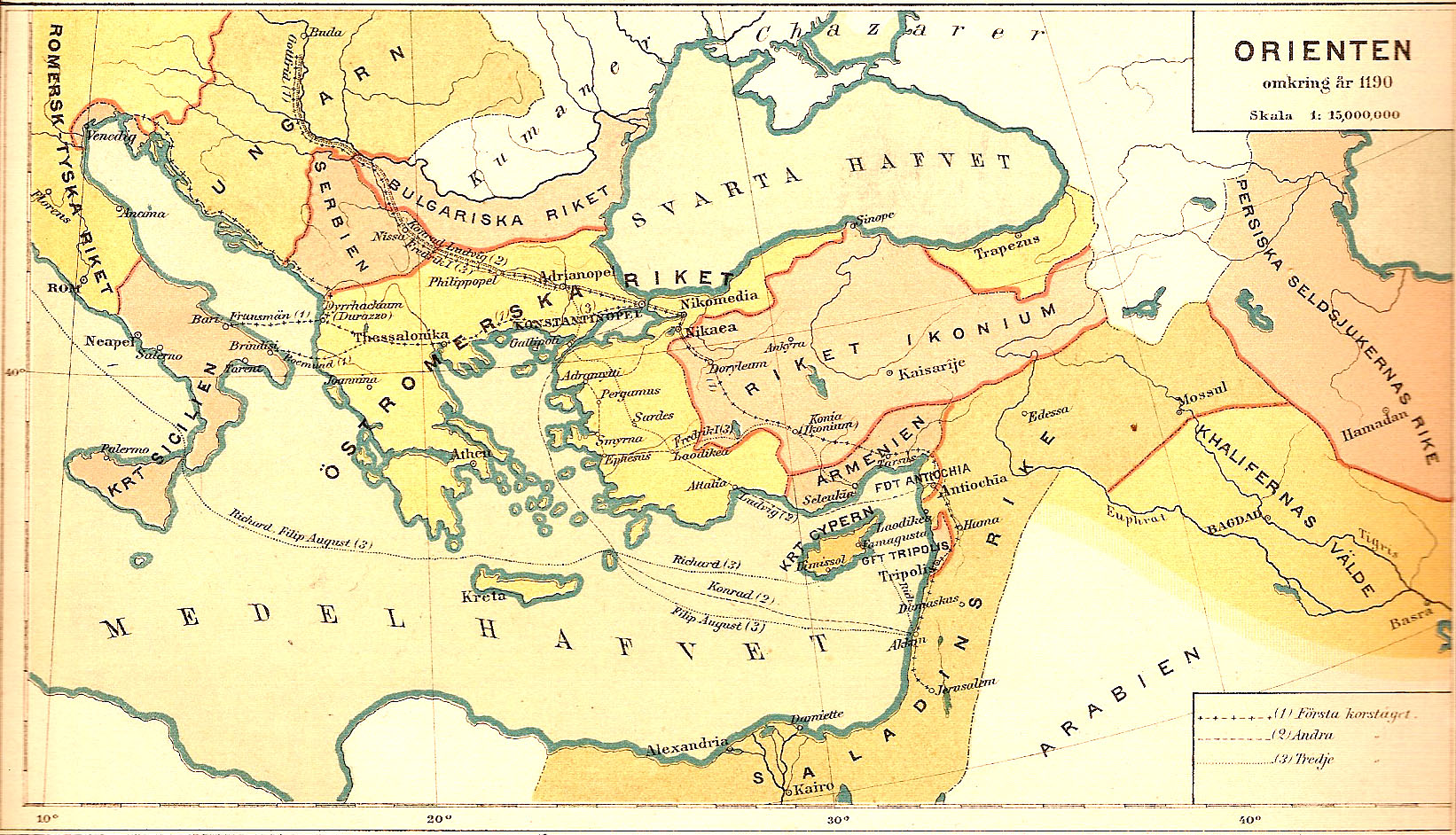 Historic map over the Orient around 1190, with focus on the crusades (in swedish).